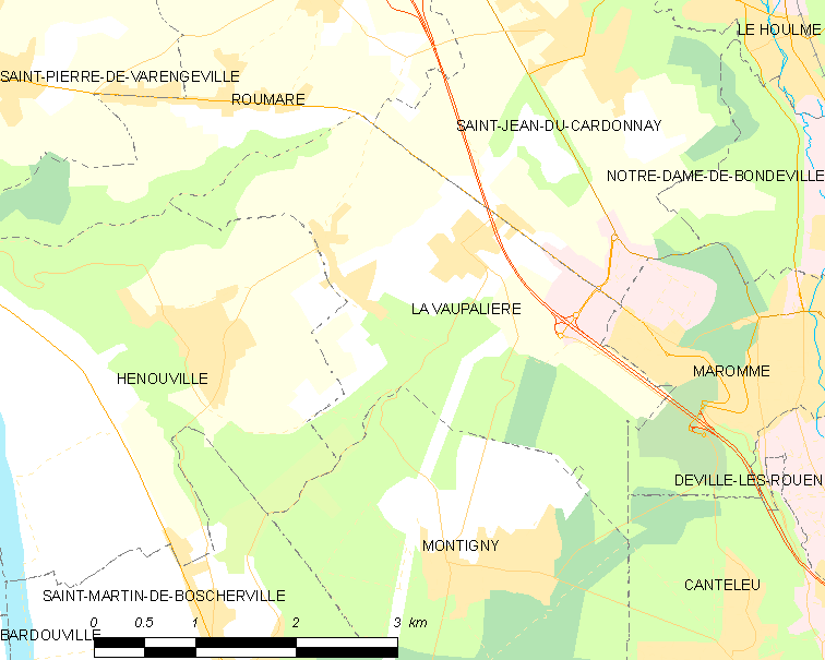 Map of French municipality La Vaupalière